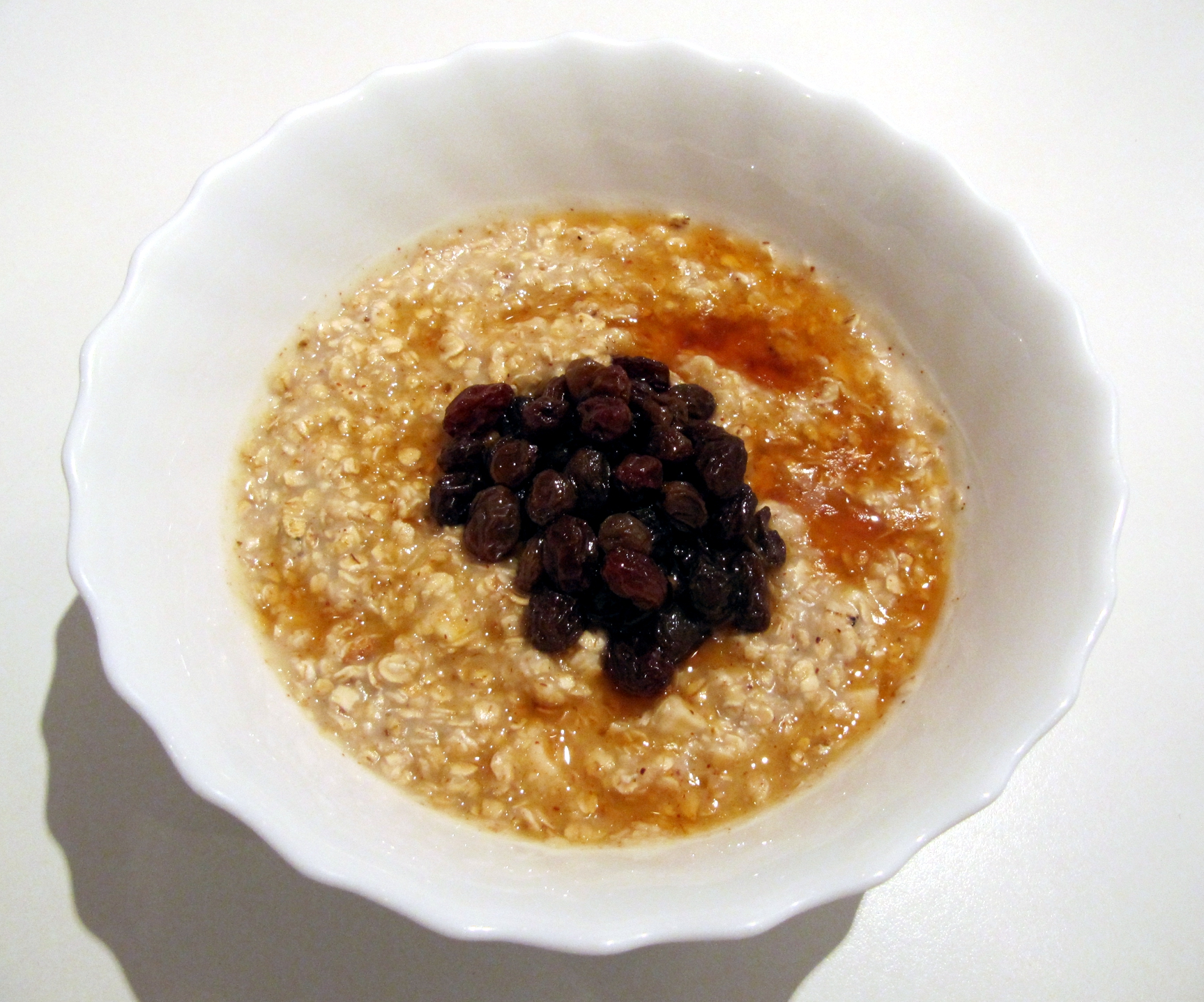 Porridge with apple chunks, garnished with rum-pickled raisins.